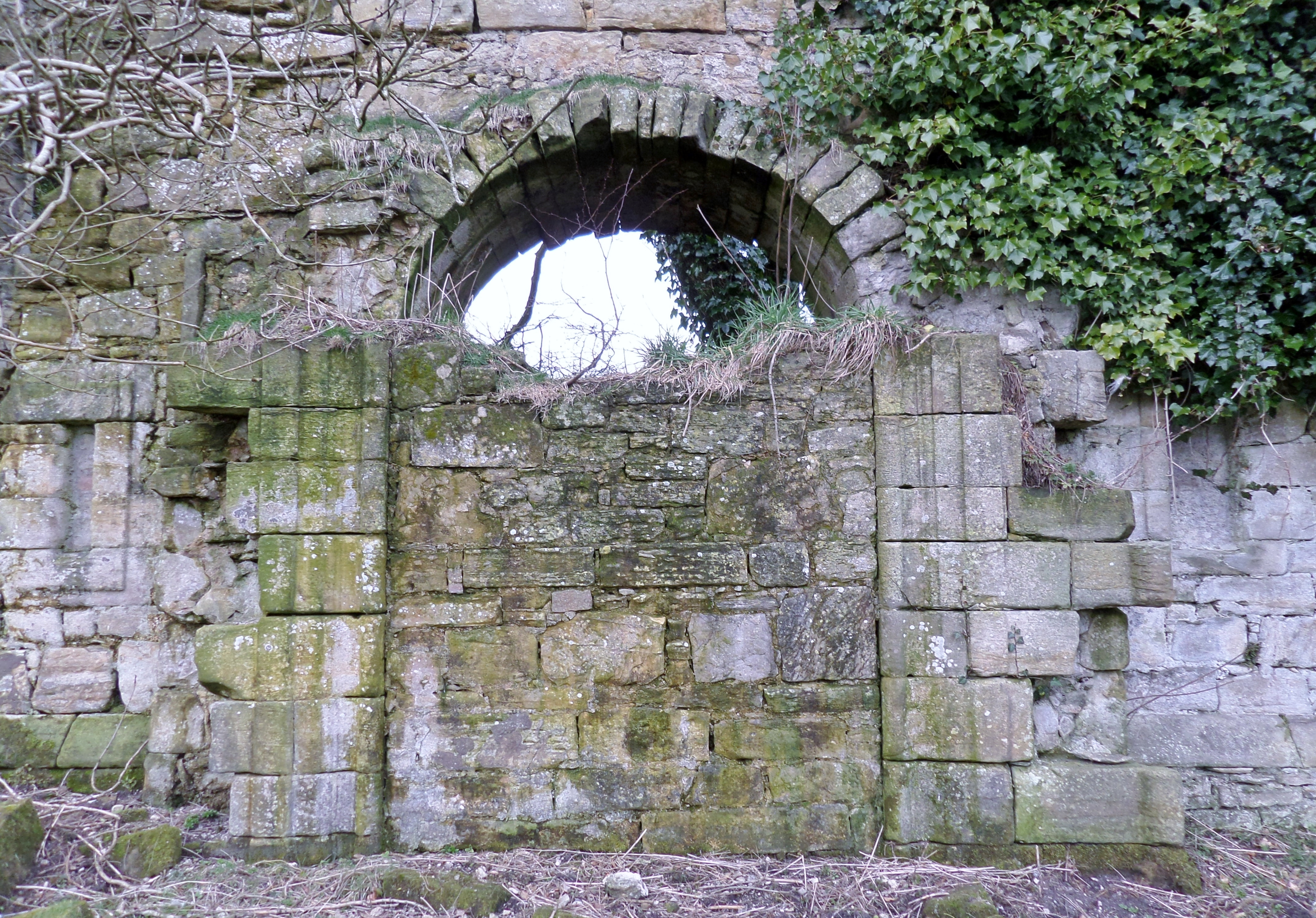 Kilbirnie Place - the old entrance to the 16th Century wing. North Ayrshire, Scotland.